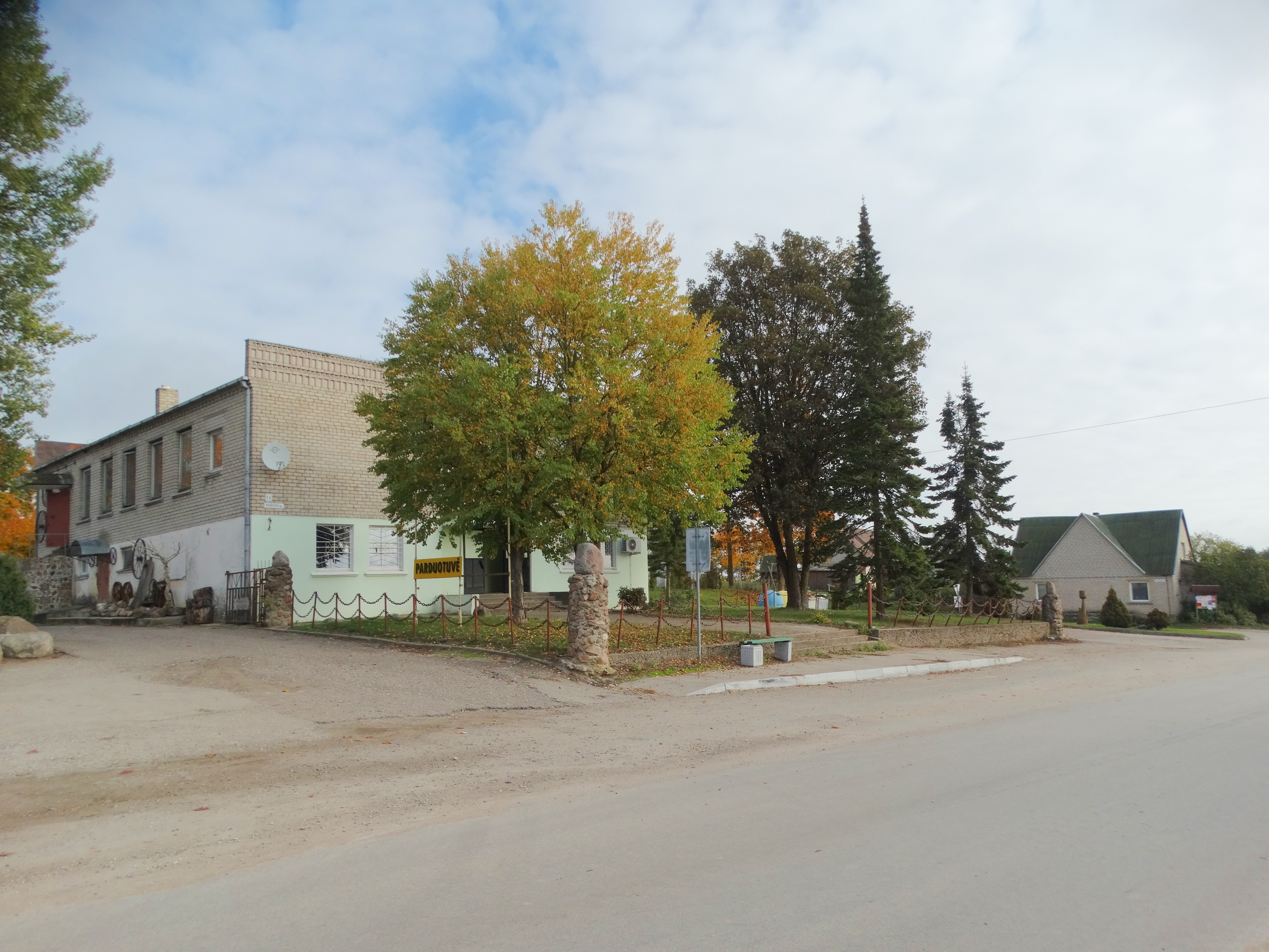 Kalnujai, Raseiniai district, Lithuania